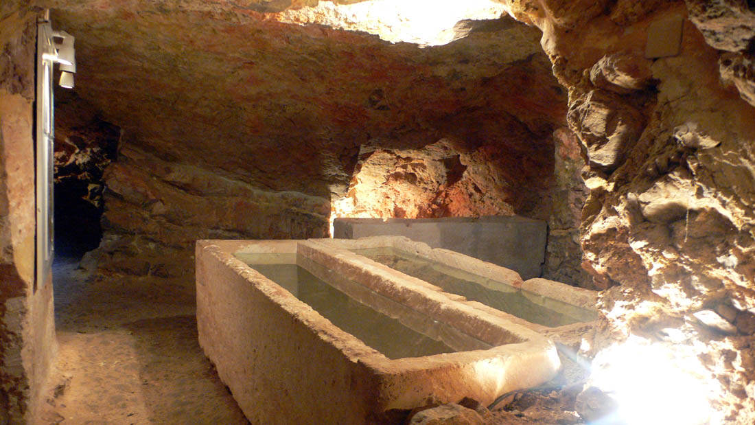 Hypogeum in the phoenician necropolis of Puig des Molins in Ibiza (Spain).